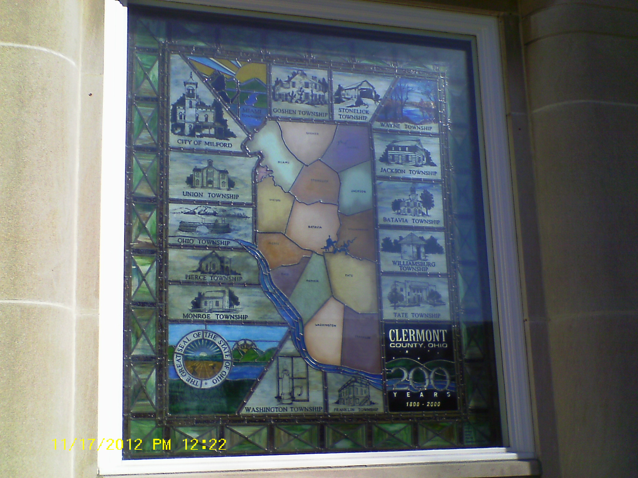 Clermont County stained glass mural at courthouse in Batavia